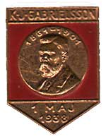 Swedish May 1st Badge 1938 depicting K J Gabrielsson